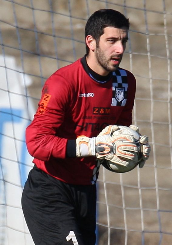 Ivaylo Yanachkov (Bulgarian: Ивайло Яначков; born 31 August 1986) is a Bulgarian football goalkeeper who currently plays for Slivnishki geroi.